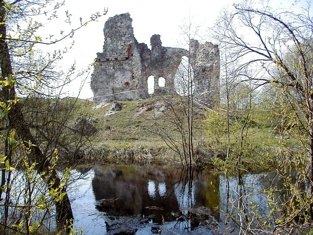 Aizkraukle Castle ruins